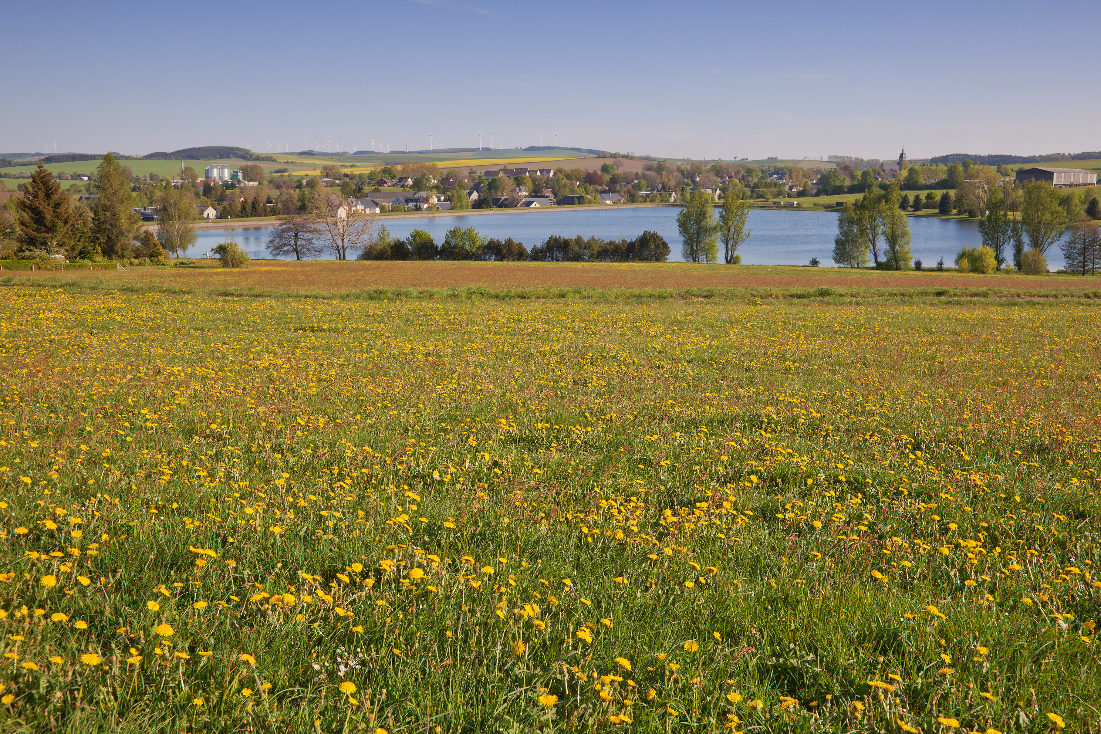 Großhartmannsdorf, view onto the village